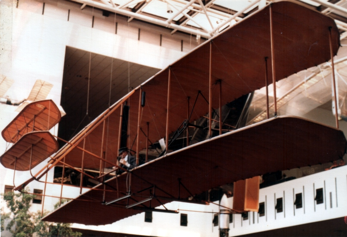 Photograph of the Wright Flyer in the Smithsonian Institution. The view is from the front left i.e. it is flying from right to left. A model of the pilot is shown lying down on the lower wing facing forward. NOTE : for same view in 1995 see File:Wright Flyer AN0231034.jpg